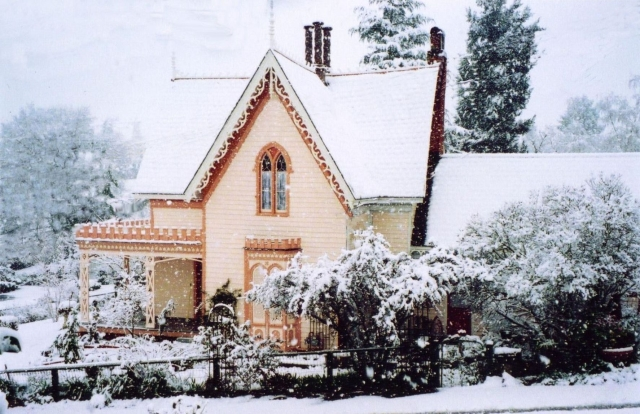 This was taken in summer, 2005